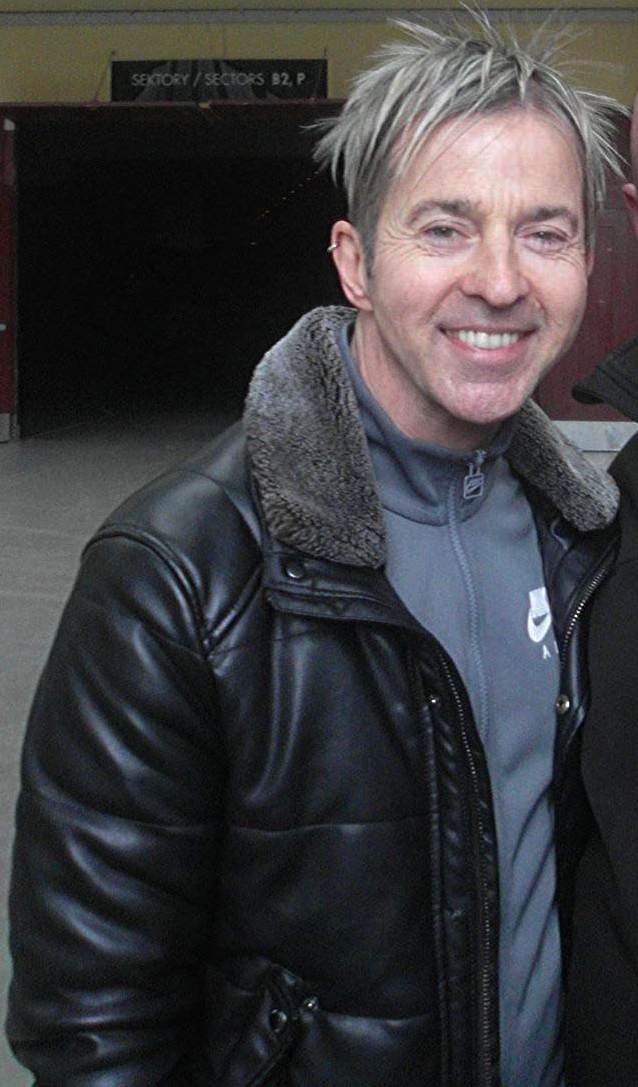 A photo of English singer Limahl taken in 2016.